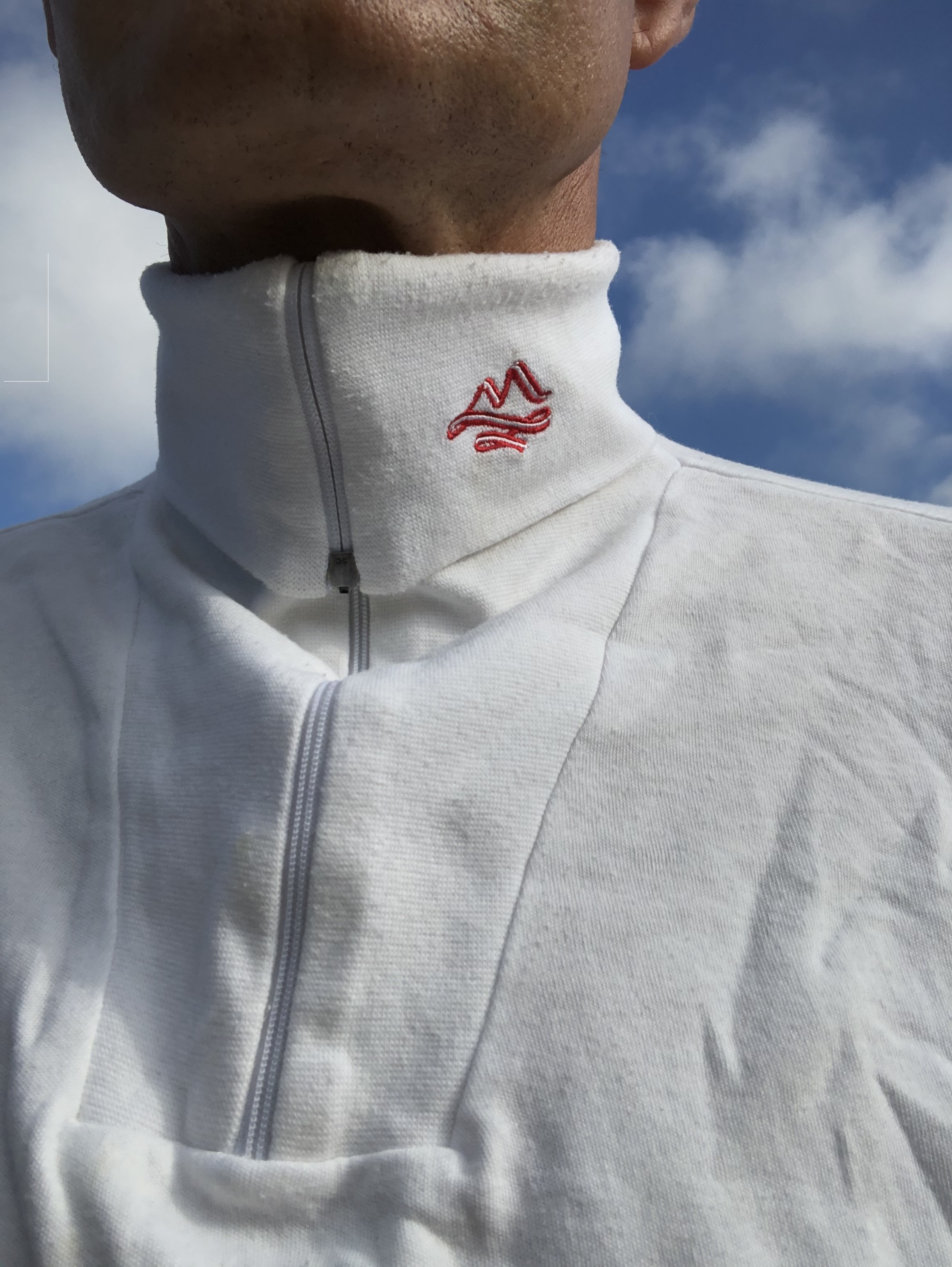 Mäser ski polo zip turtleneck or Maeser zip neck